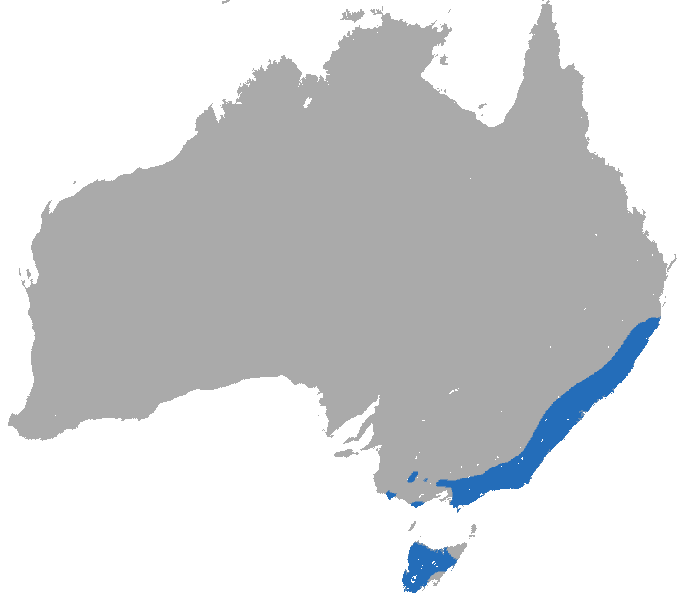 Dusky Antechinus (Antechinus swainsonii) range